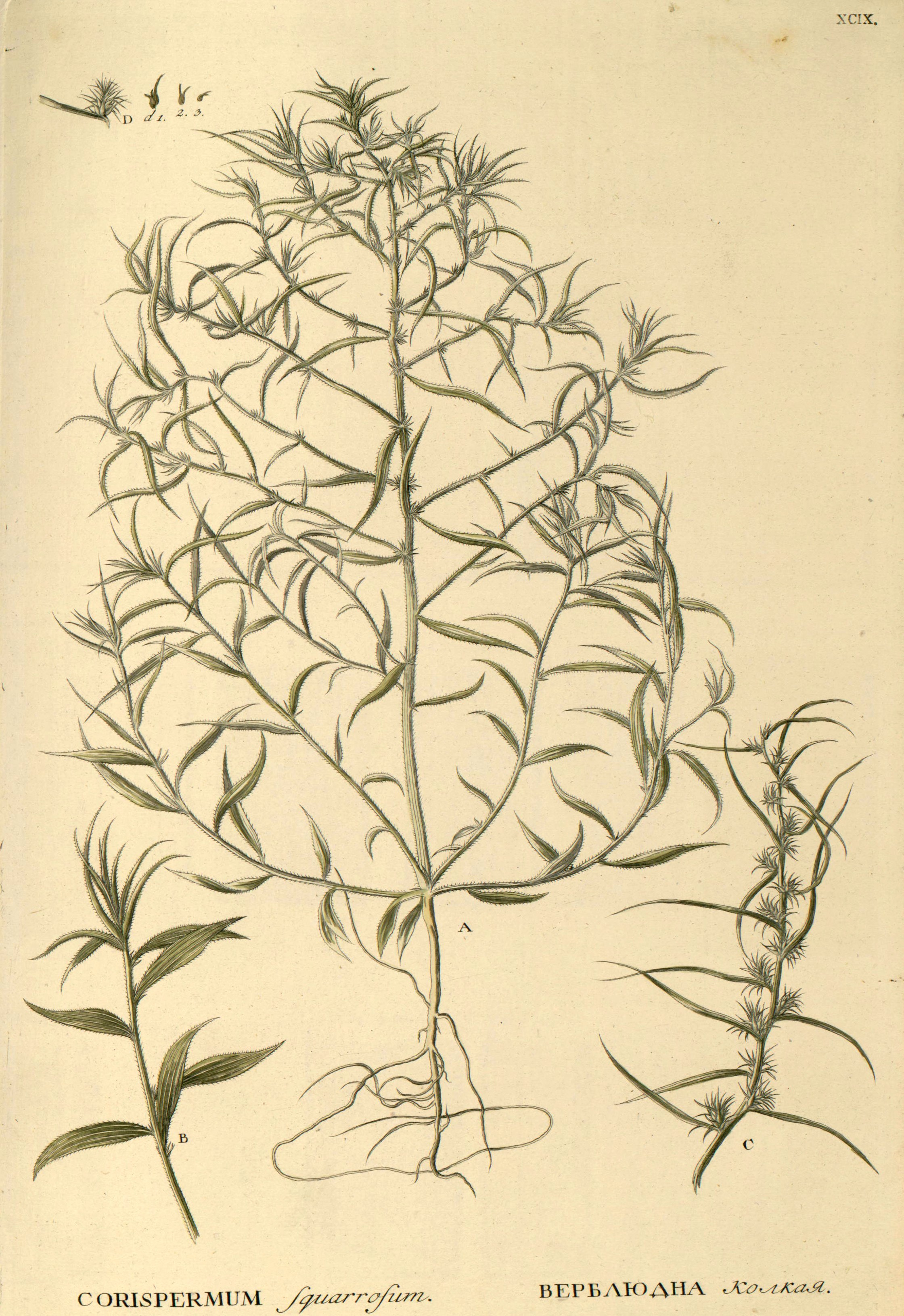 Corispermum squarrosum L. = Agriophyllum squarrosum (L.) Moq., from Pallas, P.S., Flora rossica, vol. 1(2): p. 113, t. 99 (1788) [K.F. Knappe]